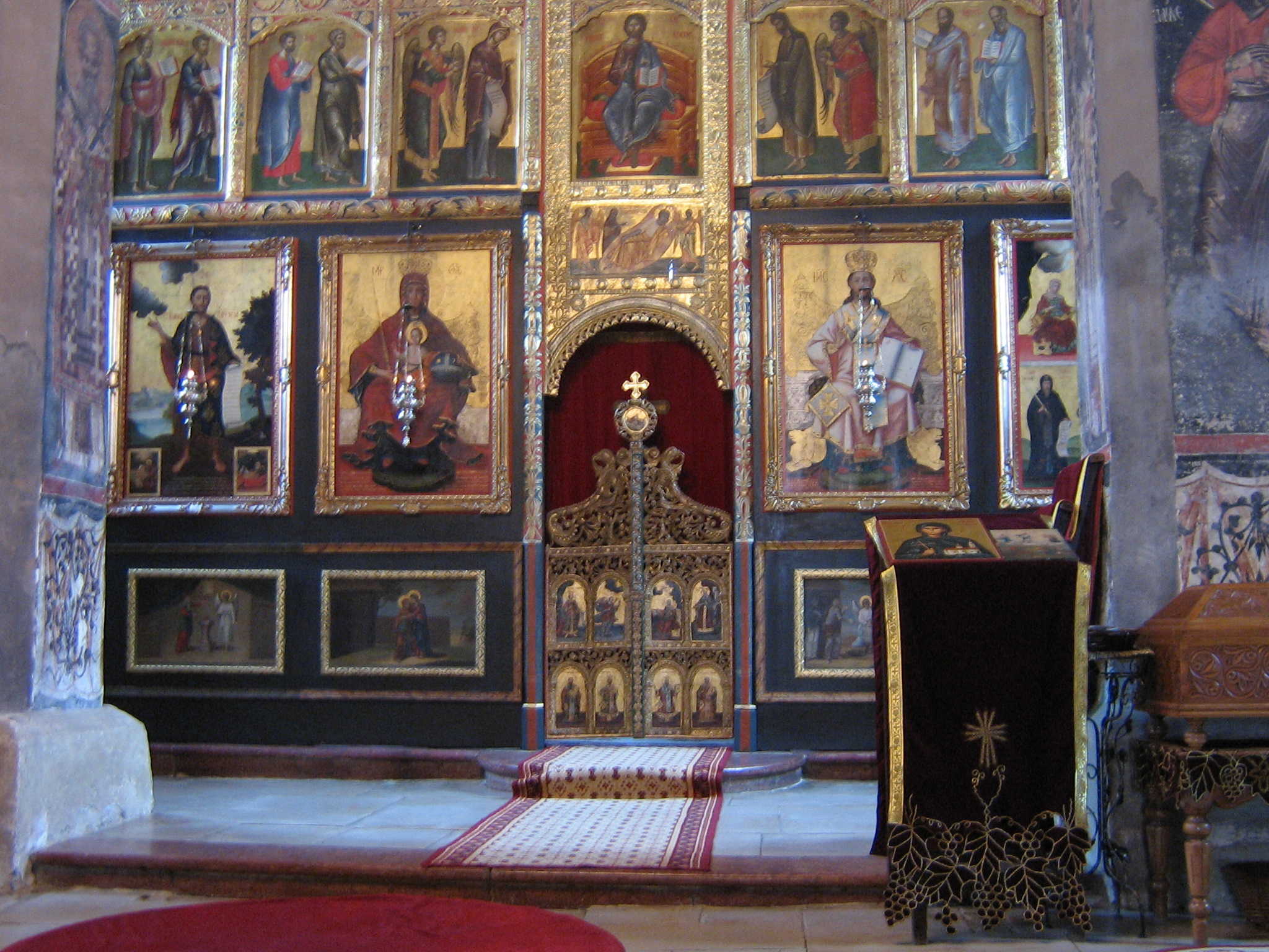 Krušedol monastery, photo taken by me in August 2006.